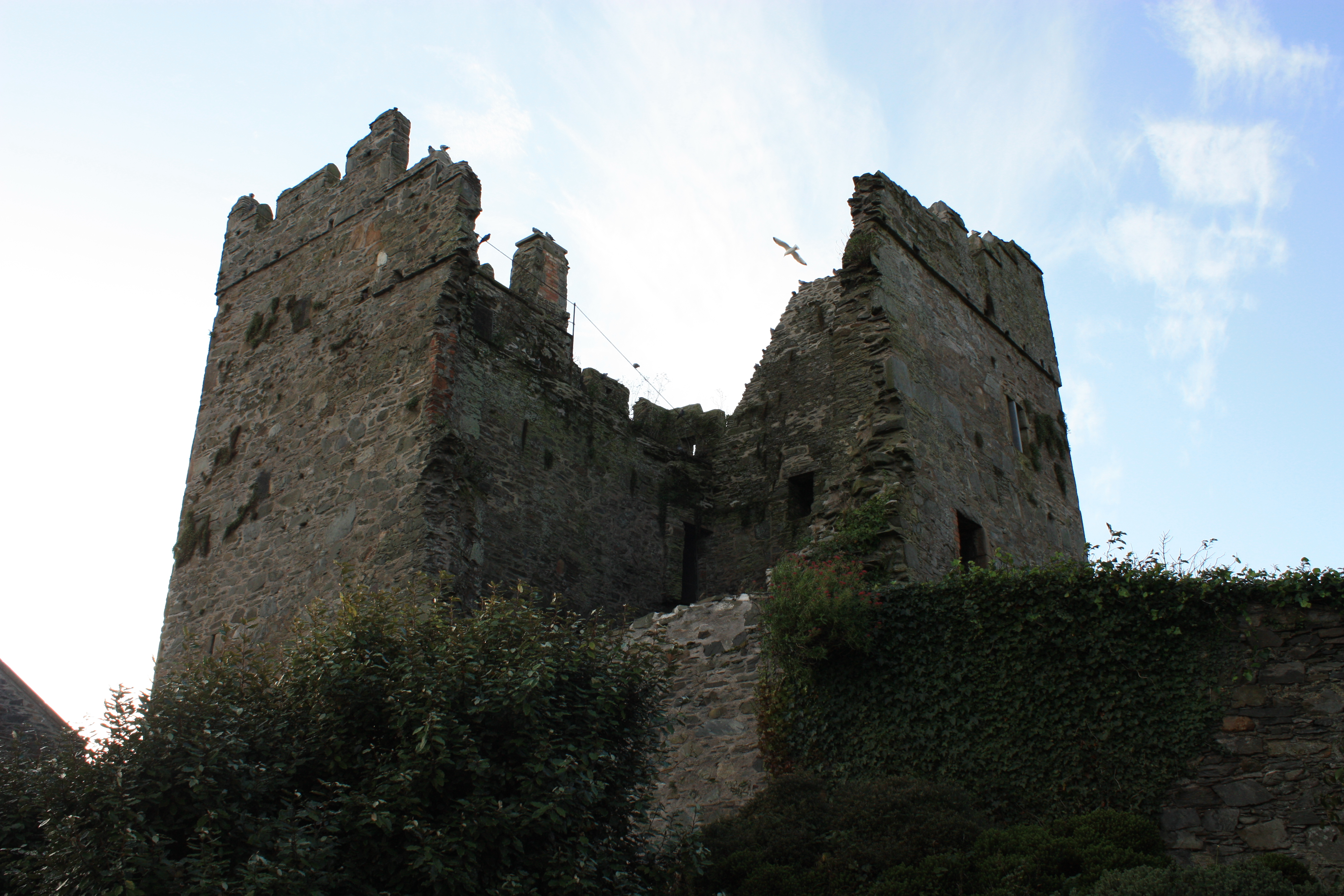 Portaferry Castle, Castle Street, Portaferry, County Down, Northern Ireland, October 2009